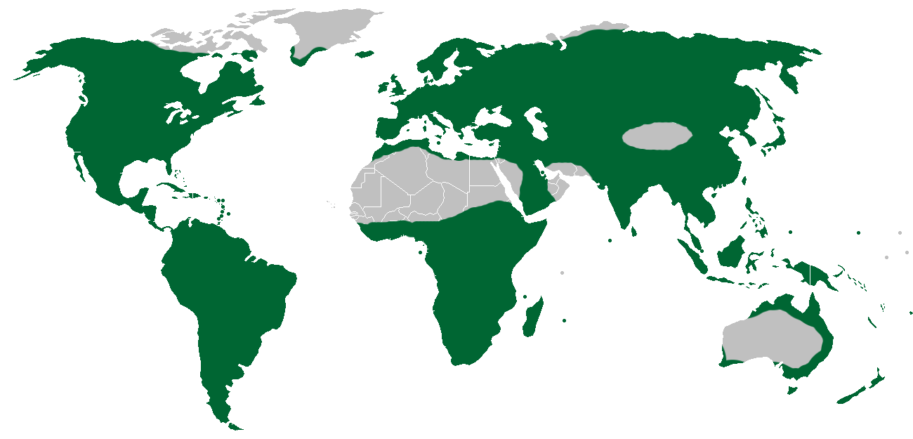 Distribution map